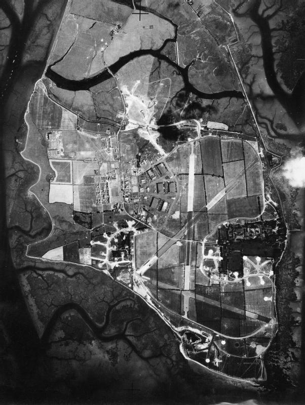 Aerial photograph showing partially camouflaged RAF Thorney Island airfield.